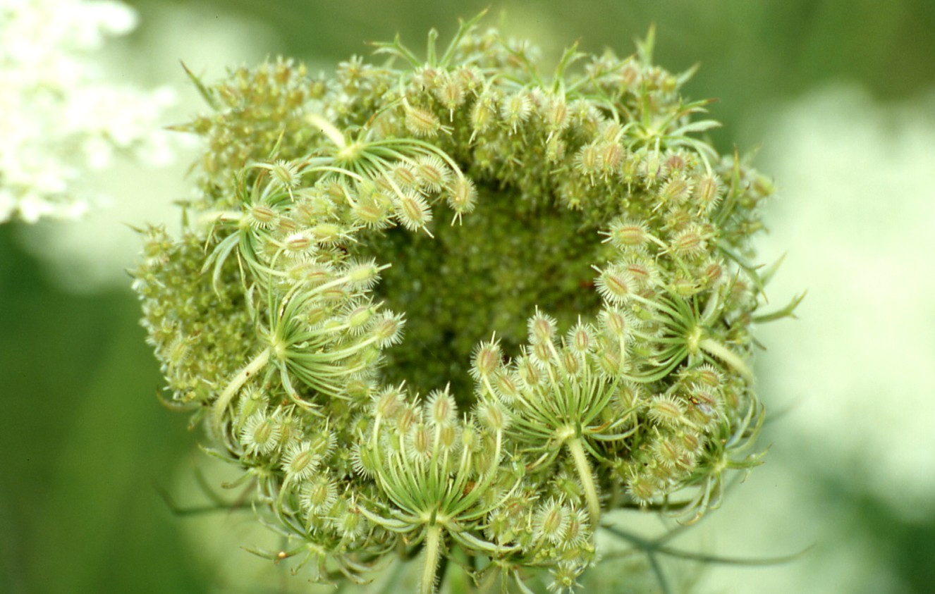 Fruiting inflorescence of a Wild carrot (Daucus carota ssp. carota) in typical shape.